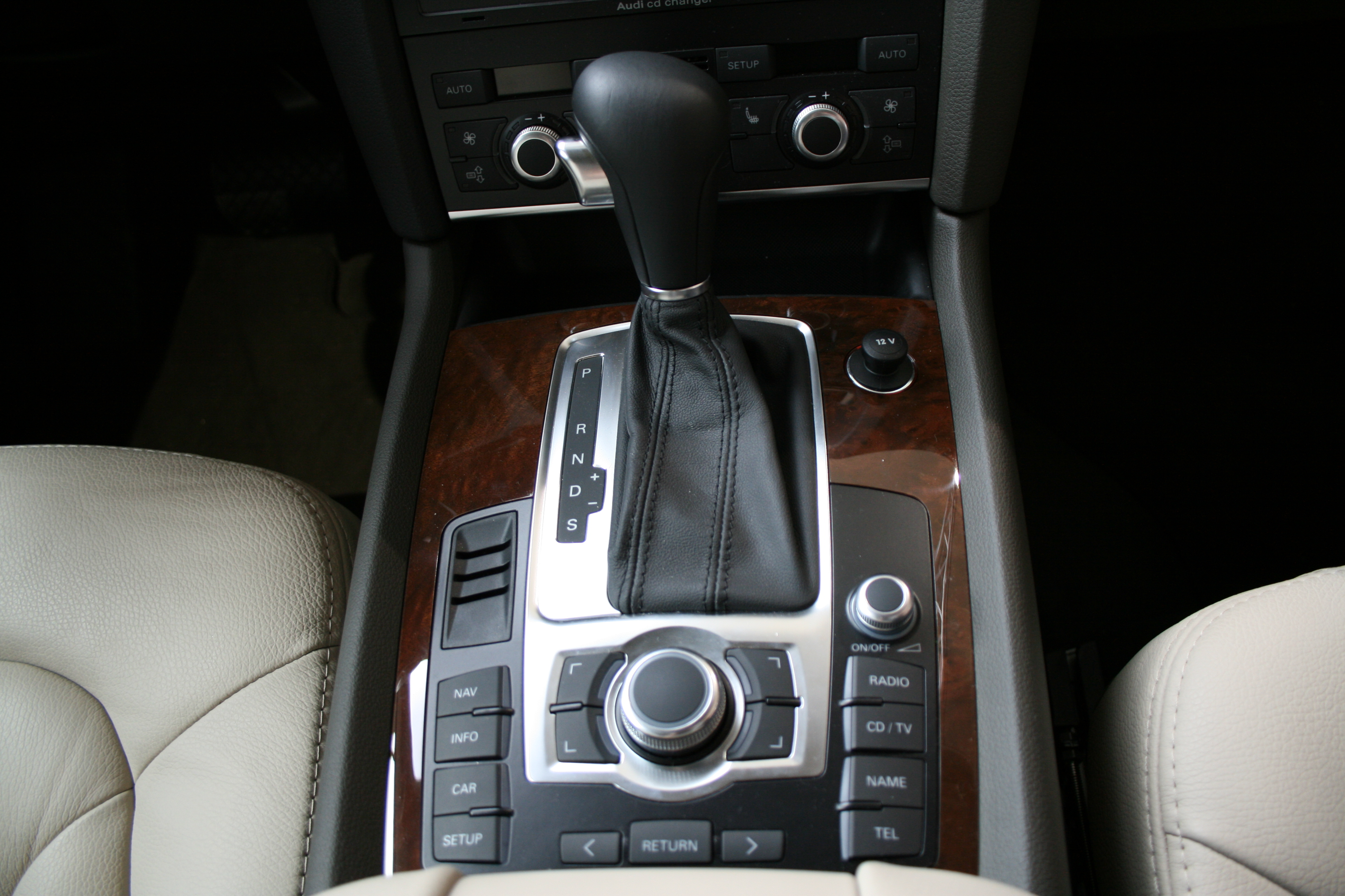 Picture of the buttons in Audi's MMI system